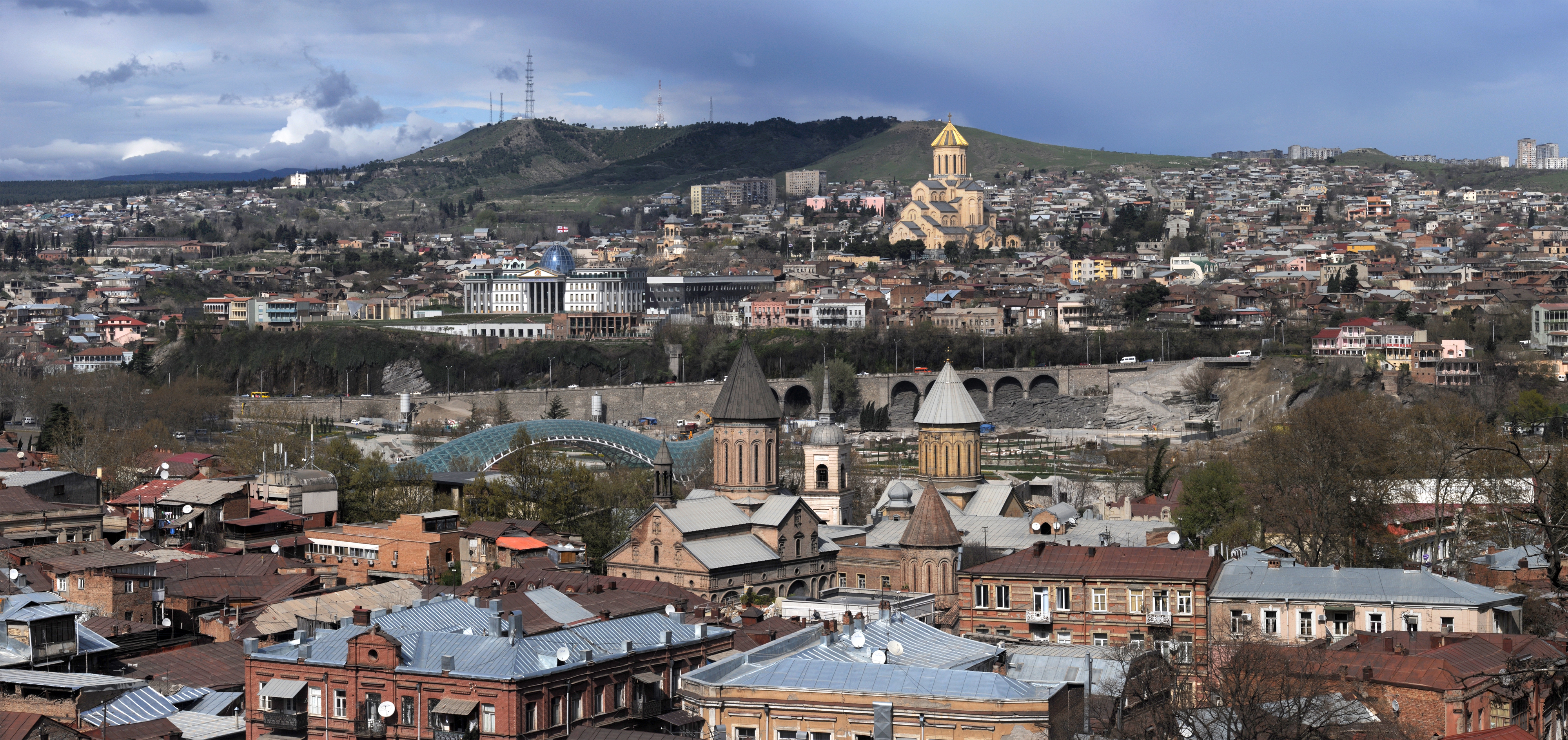 Panoramic view of Tbilisi, Georgia.